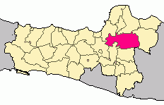 Grobogan county in Central Java province, Indonesia